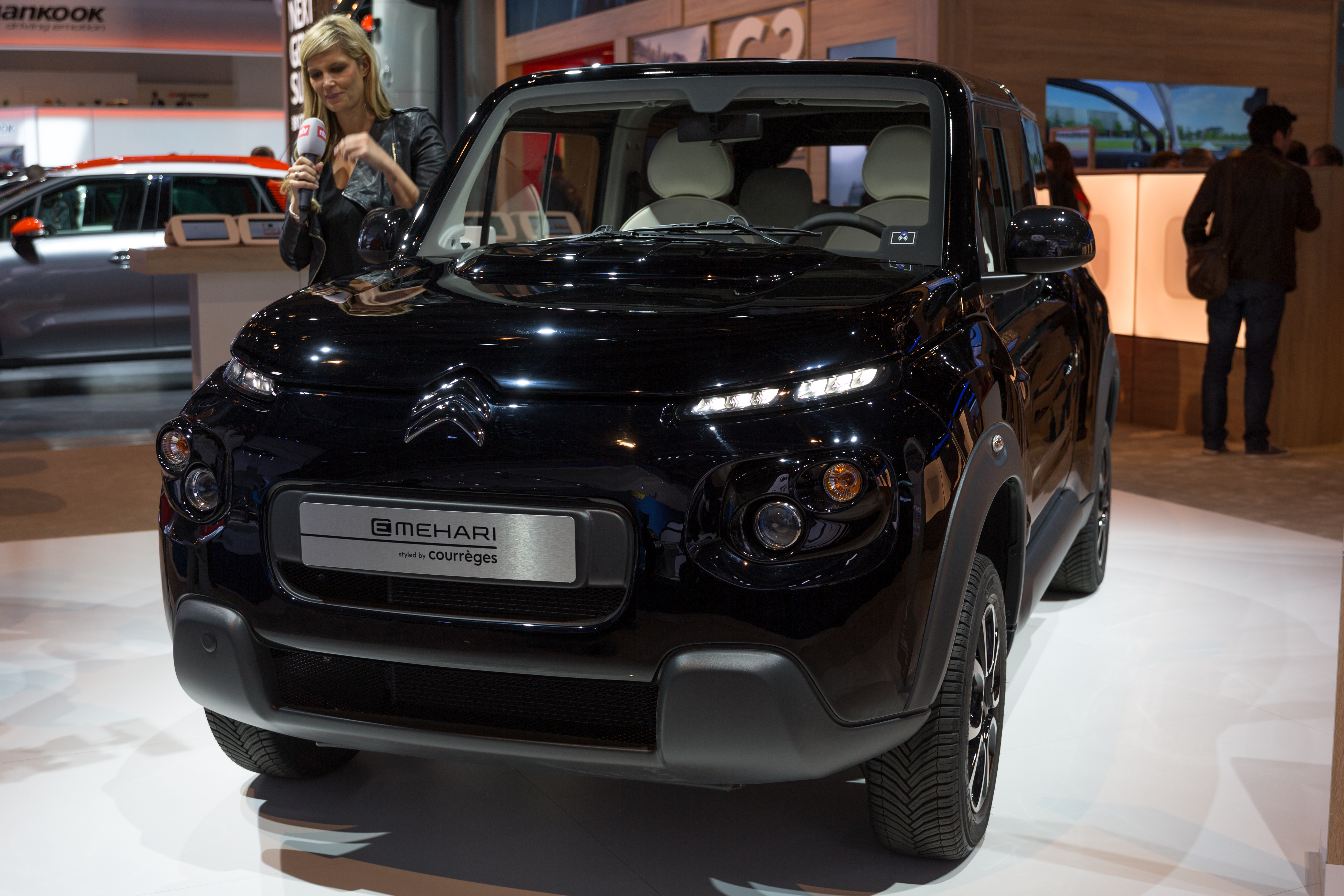 Citroën E-Mehari Courrèges at IAA 2017 (in background Verena Wriedt preparing her segment for N-tv)